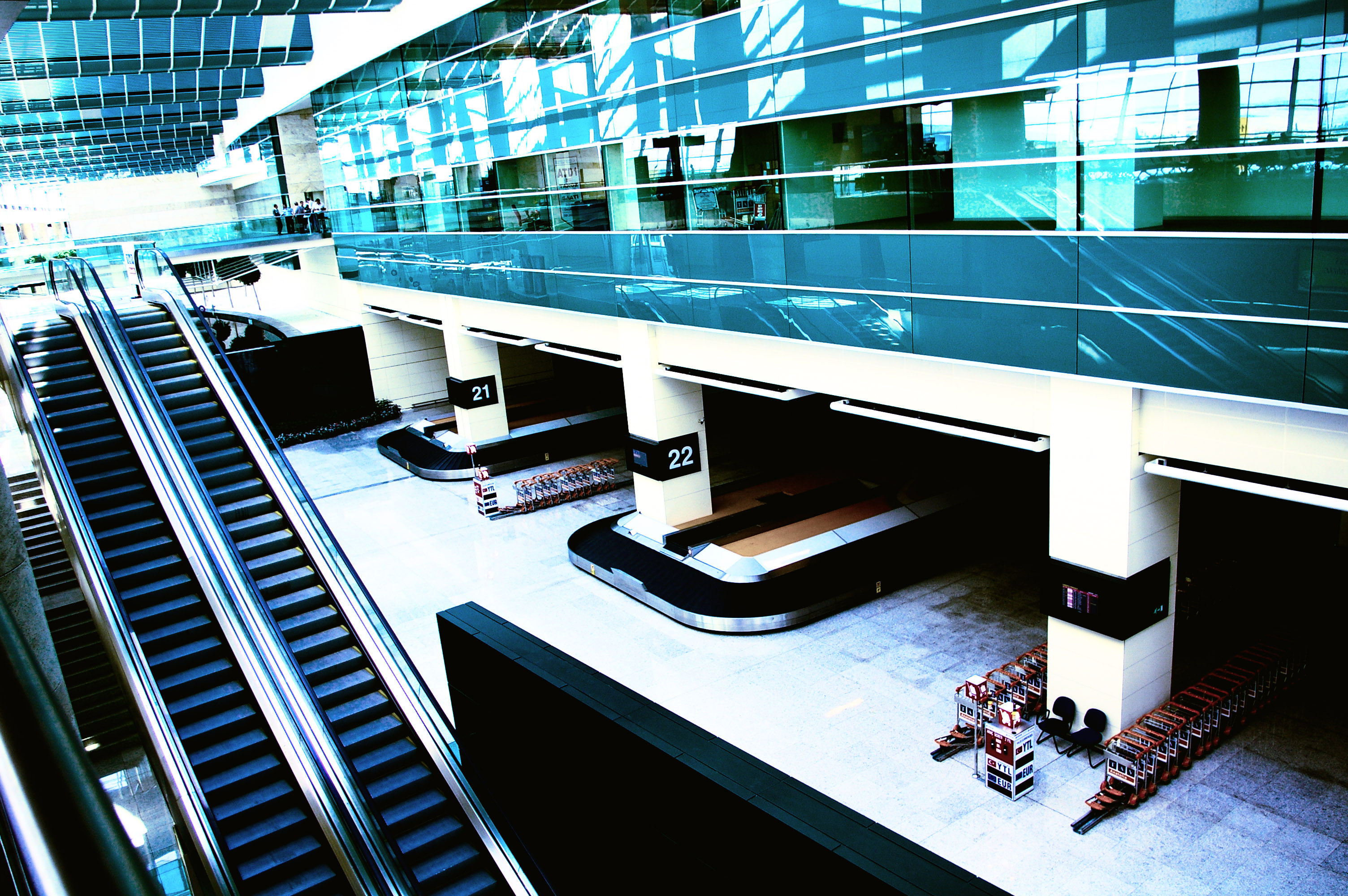 Ankara International Airport interior